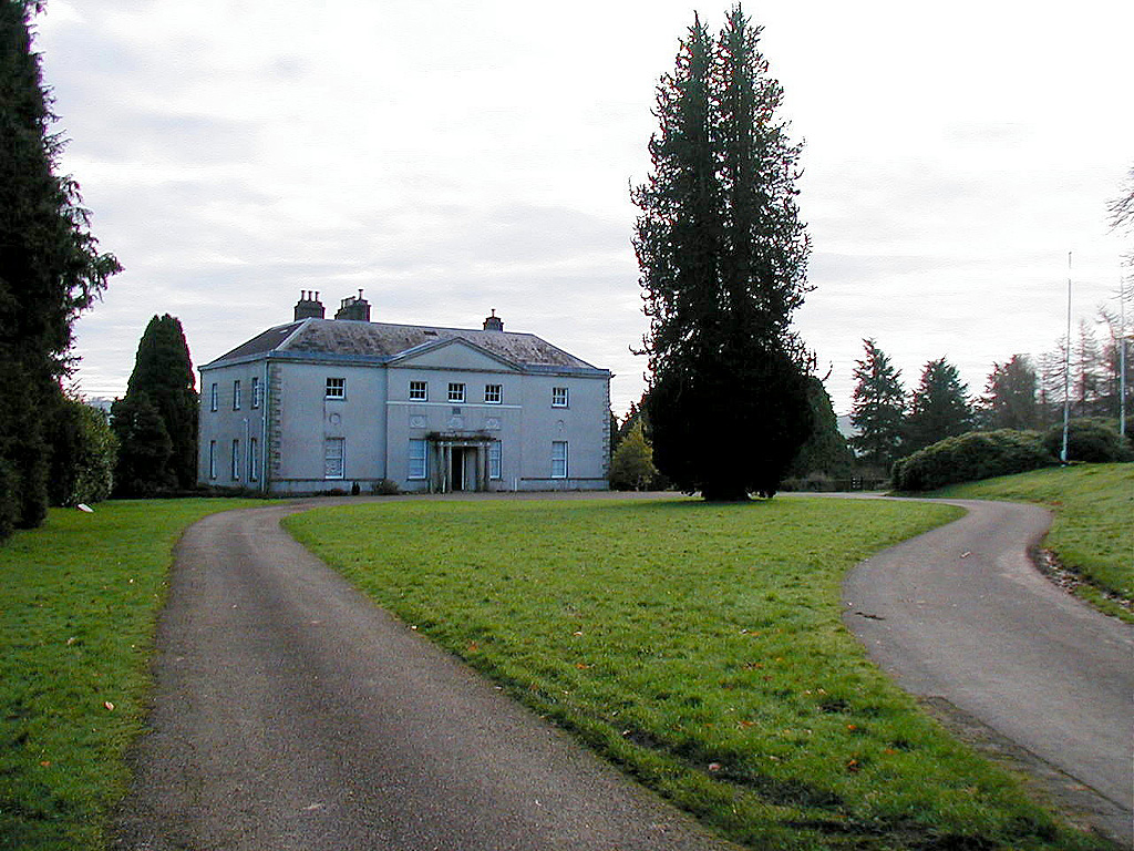 Avondale House, Near Rathdrum, County Wicklow, Ireland. Built in 1777 and the birthplace and home of Charles Stewart Parnell (1846-1891) a famous Irish politician. It is now a museum, restaurant, conference centre and forest park centre.